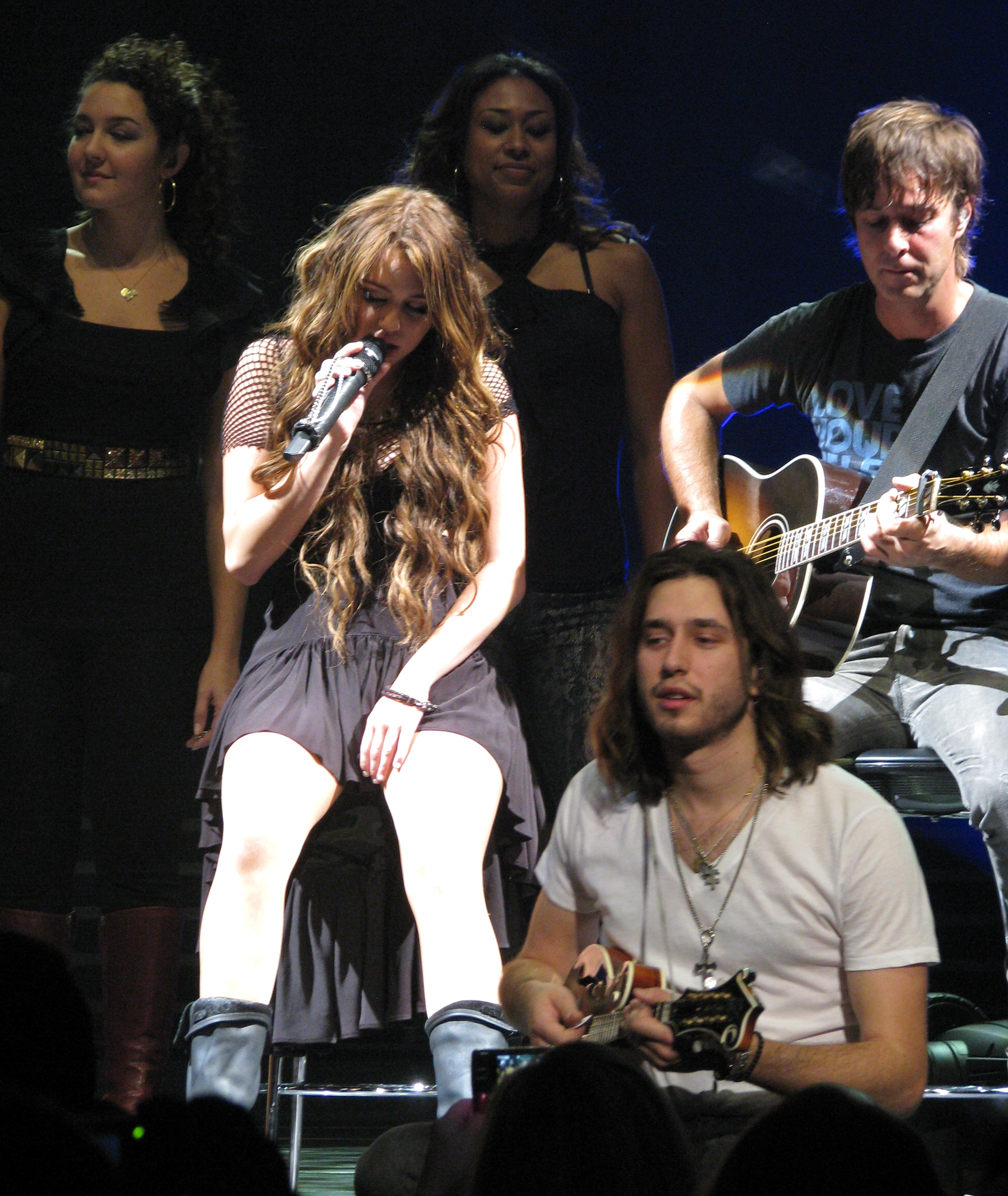 Pop singer Miley Cyrus performs "These Four Walls" (disregard title), wearing a black mullet dres, with various musicisians on September 14, 2009 at the Rose Garden in Portland, Oregon, as part of her 2009 Wonder World Tour.